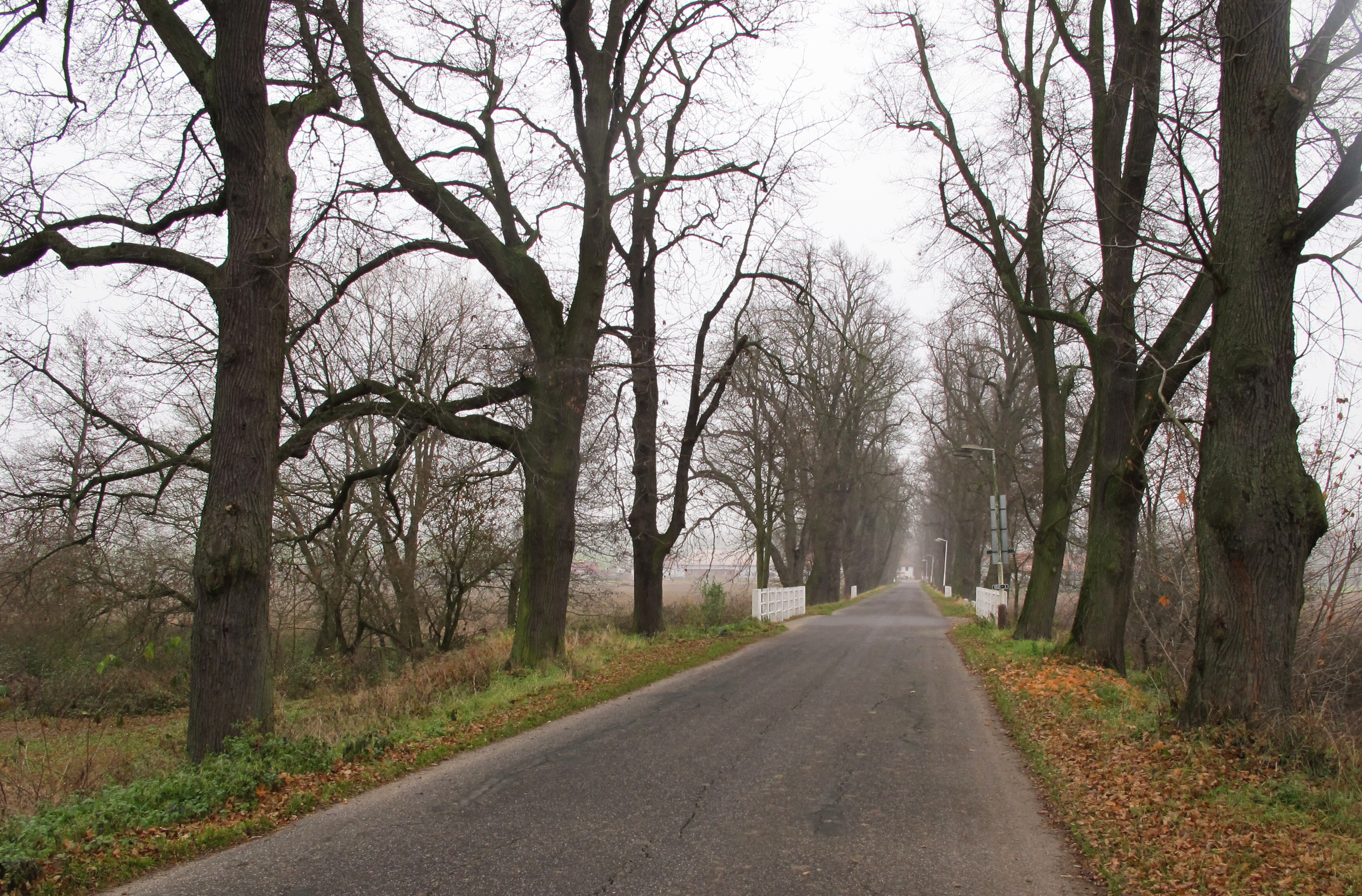 Famous trees - alley towards the Sedmihorky, Semily District - Czech Republic